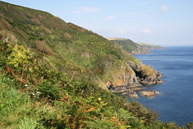 Polperro Cliffs On the coast path just outside Polperro.